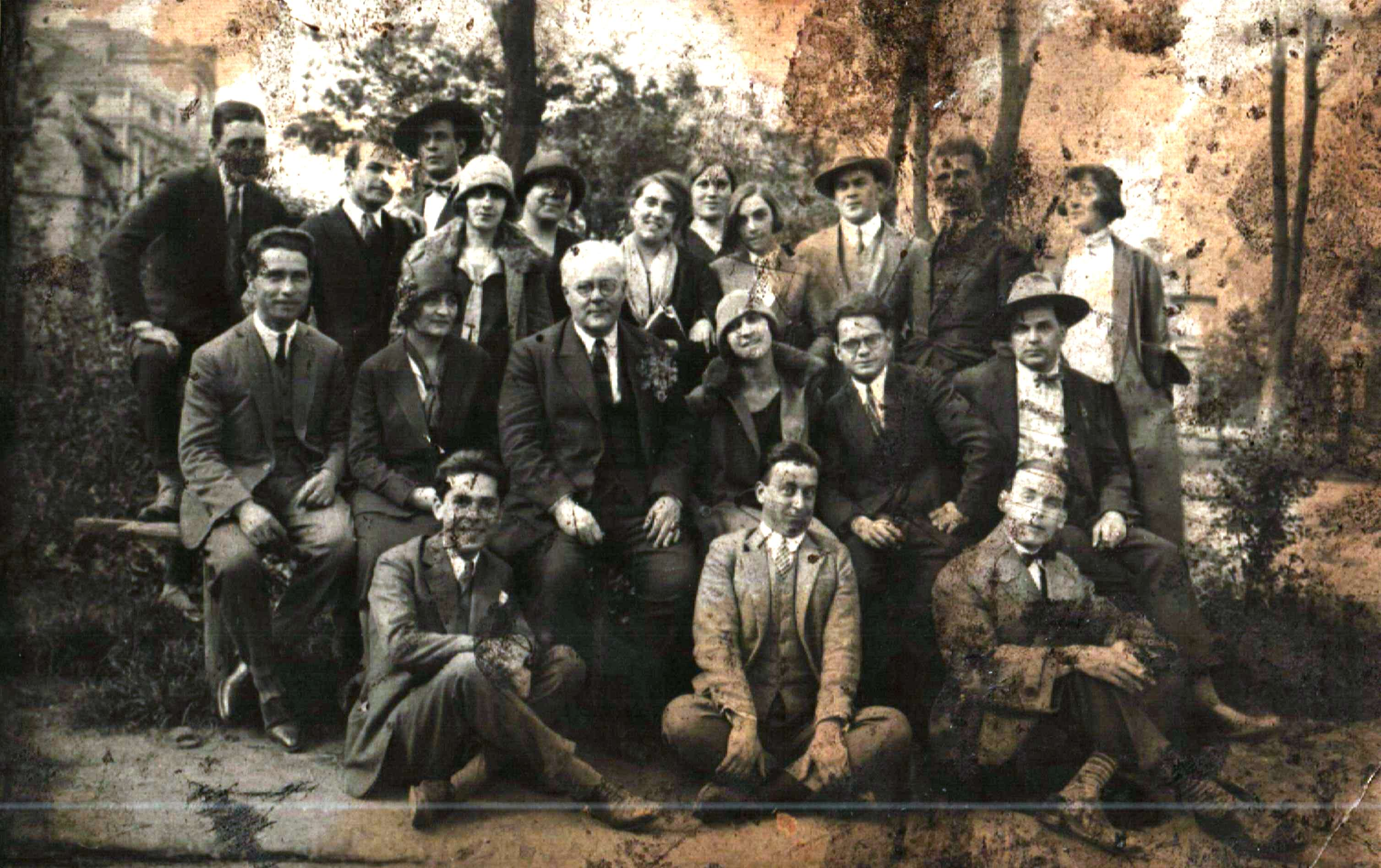 Actors and actresses from National Theatre of Bulgaria